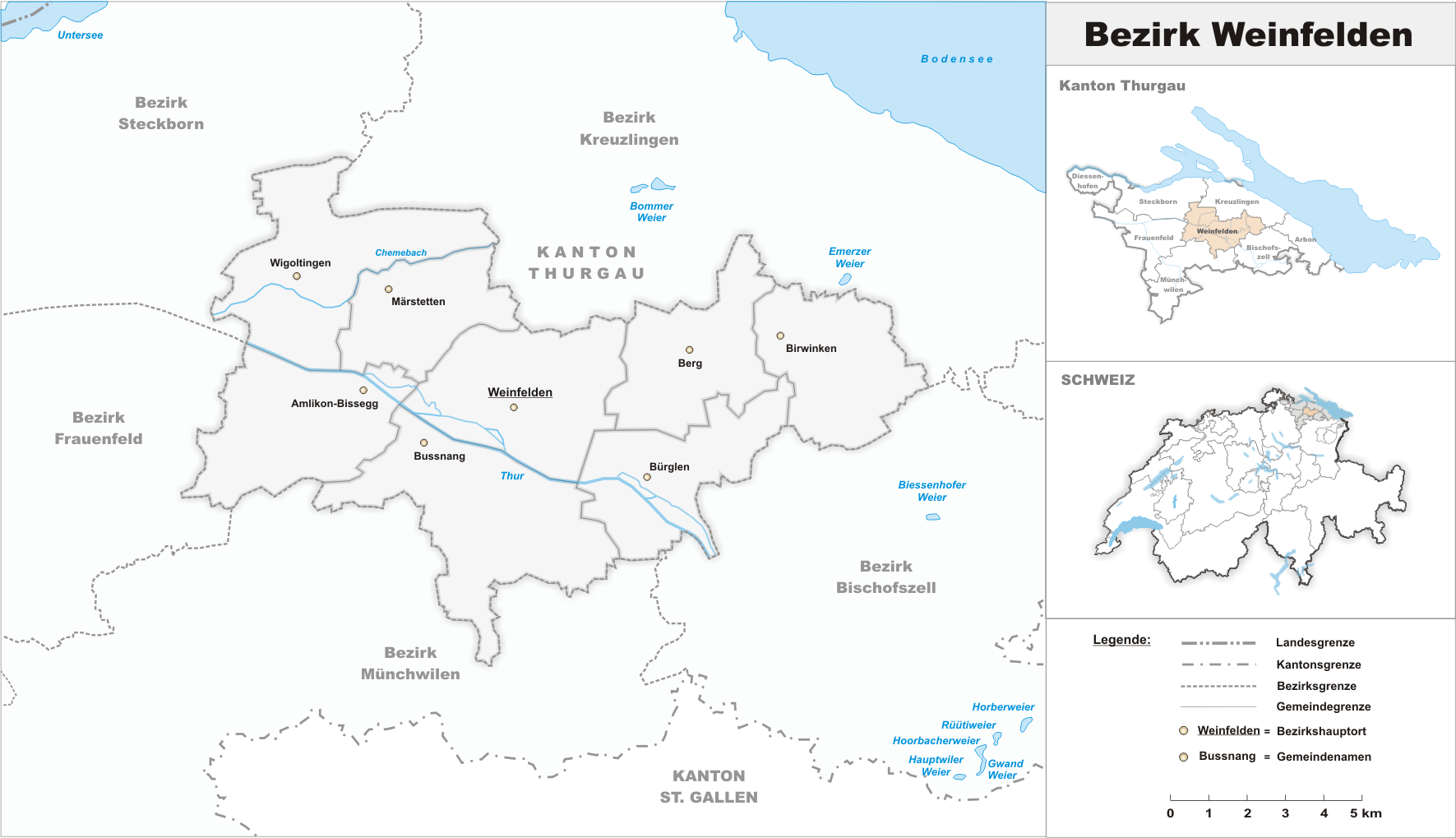 Municipalities in the district of Weinfelden